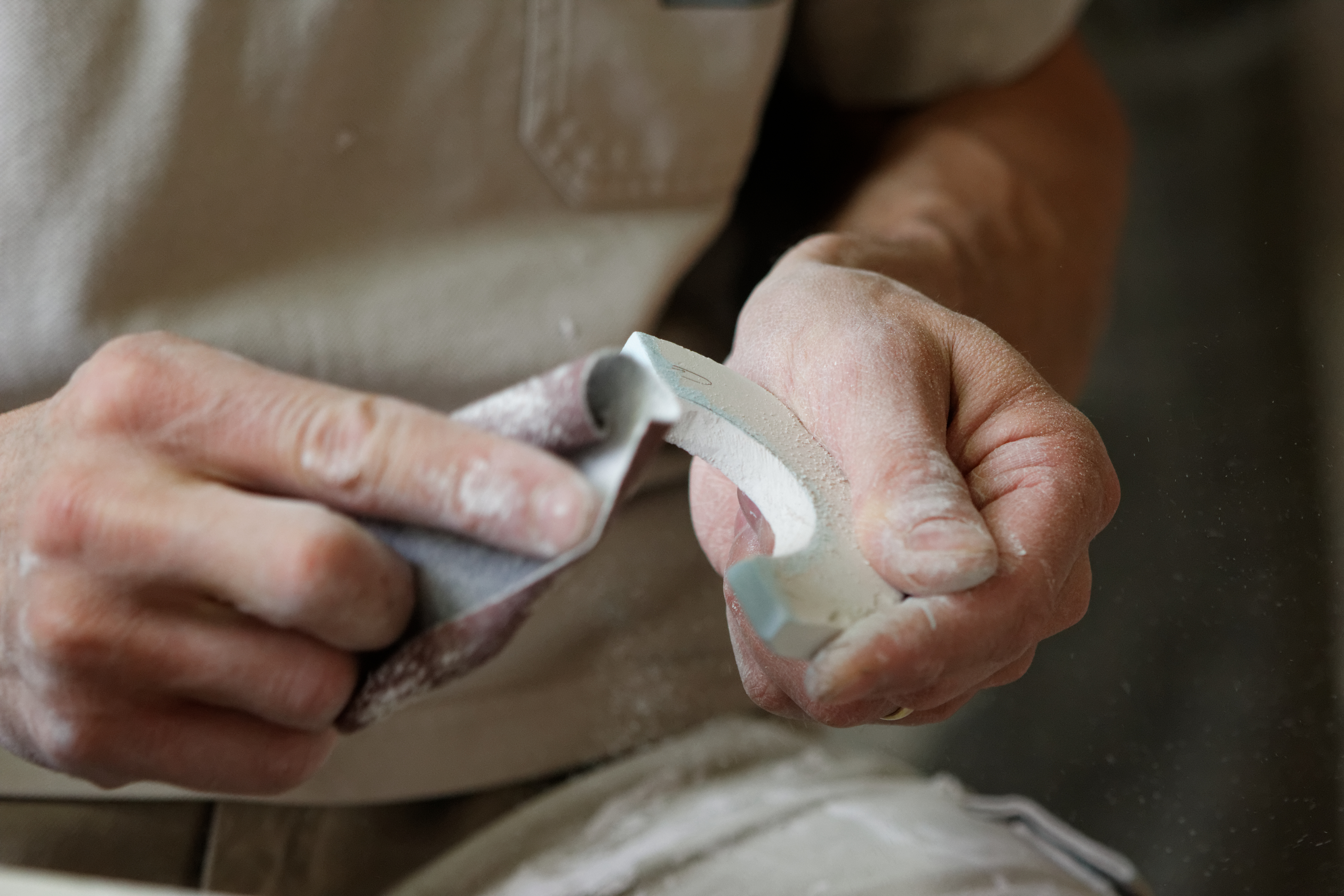 Small-scale casting (slipcasting) workshop of the manufacture nationale de Sèvres. Preparation of the the firing supports.